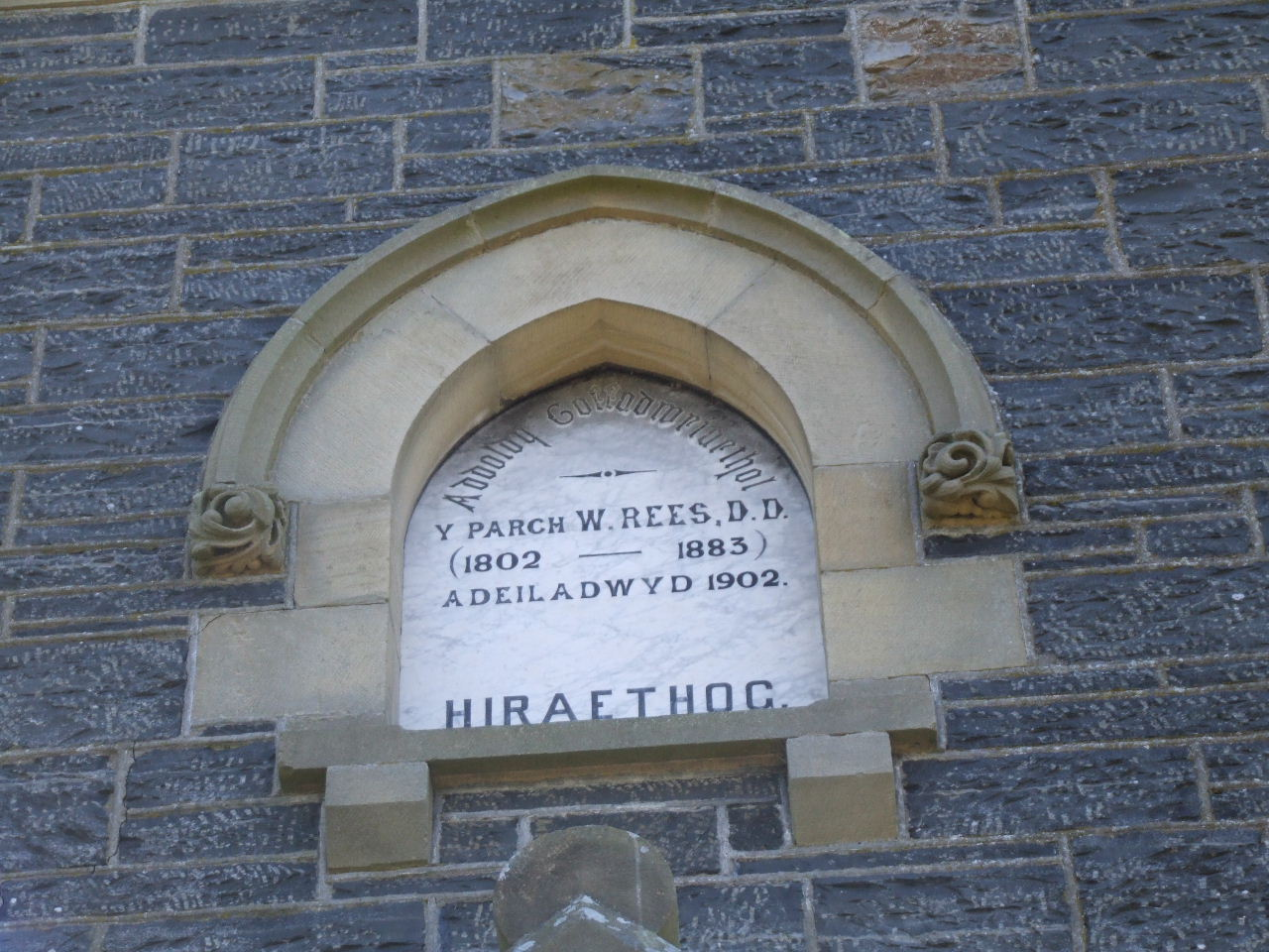 Memorial slab to Welsh-language poet and novelist William Rees (Gwilym Hiraethog) on a chapel in Llansannan, Conwy County.